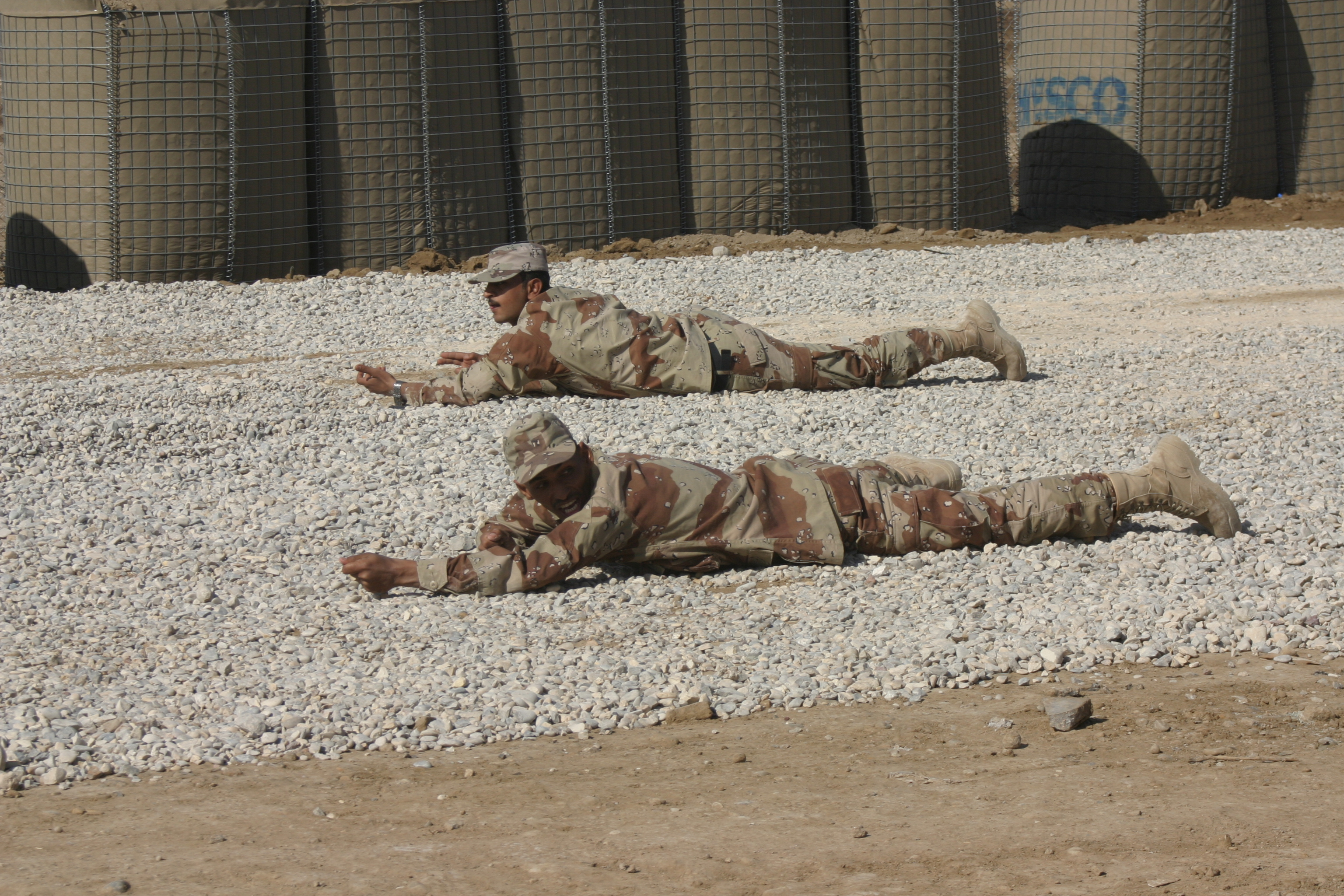 Two Iraqi Army (IA) soldiers with the 3rd Brigade, 7th Division lie in the prone position while conducting fire-team maneuvers at the An Numaniyah Training Base in An Numaniyah, Iraq near the Iranian border. The IA soldiers are being trained by a U.S. led Military Transition Team whose job is to man, train, equip and deploy with their Iraqi counterparts to the Western Al Anbar province in order to set conditions for the future transfer of the province to IA control.